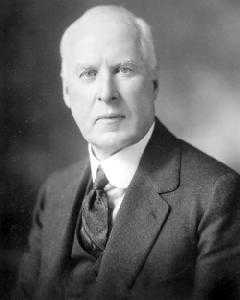 John Alexander MacDougall